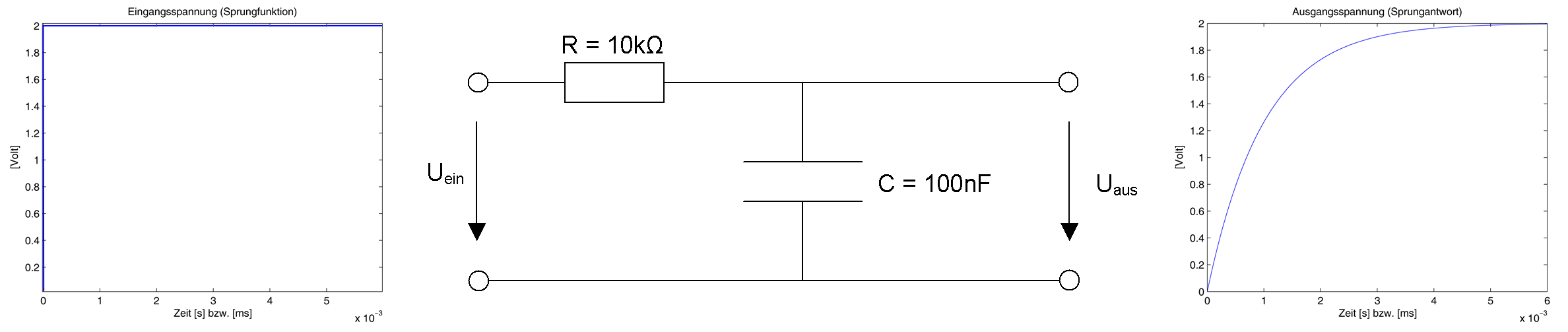 Sprungantwort eines RC-Systems / Step response of a RC-system